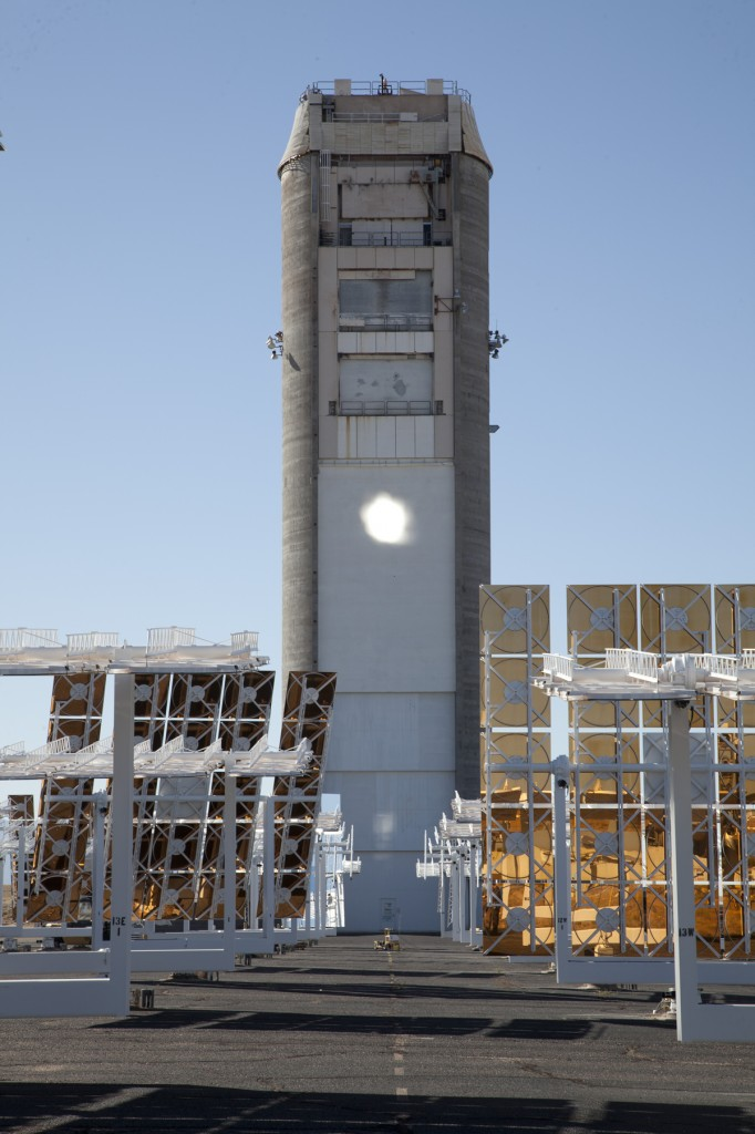 Photo of the central receiver tower (solar tower) at the national solar thermal test facility at Sandia National Labs.